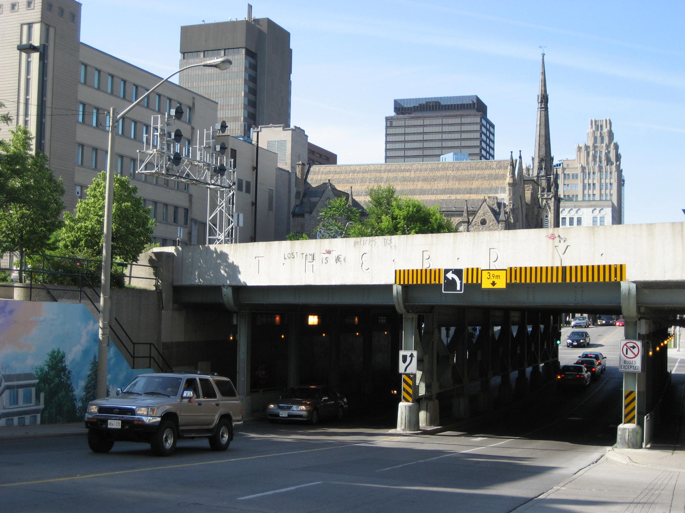 T.H. & B. Railway Bridge, James Street South, Hamilton, Ontario